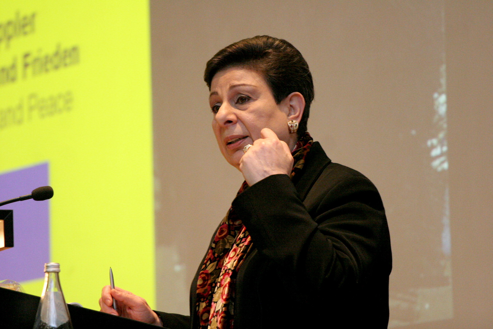 Hanan Aschrawi Hanan Ashrawi was awarded with the Mercator-Professur of the Duisburg-Essen University on 29.11.2007 at the Duisburg Audimax Campus Duisburg